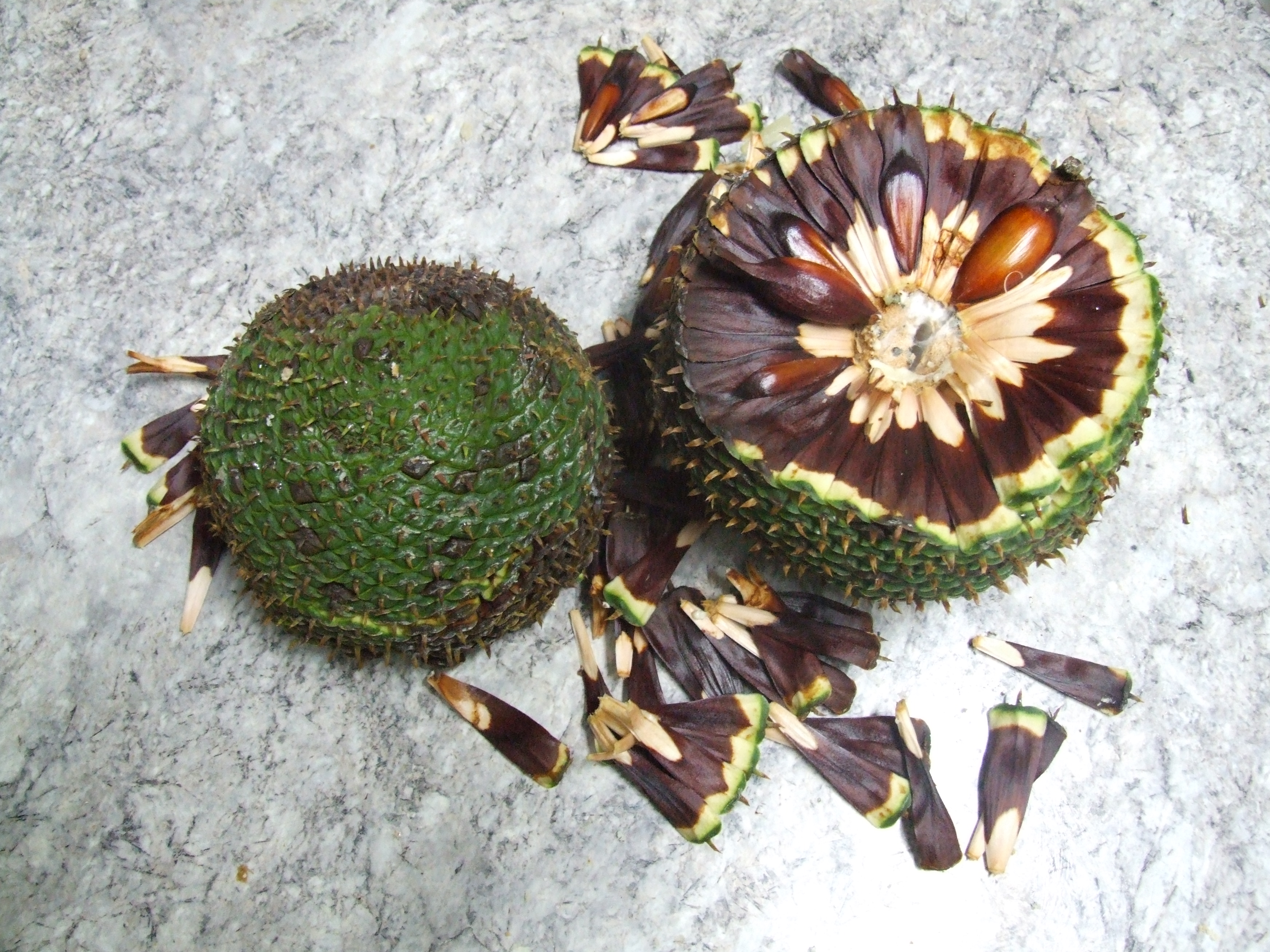 Female strobilus of the species Araucaria angustifolia.